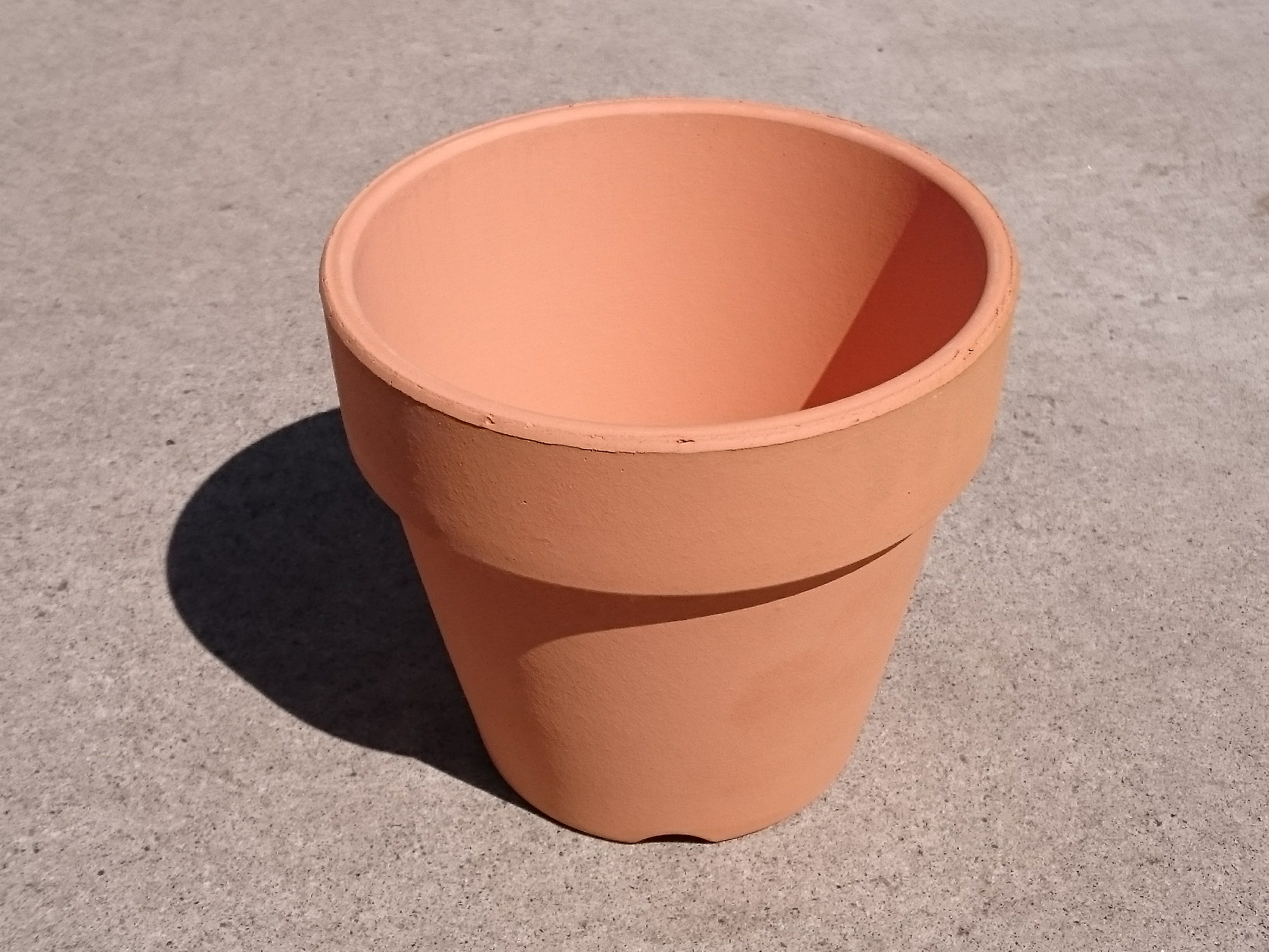 Ceramic flowerpot (made in Japan)